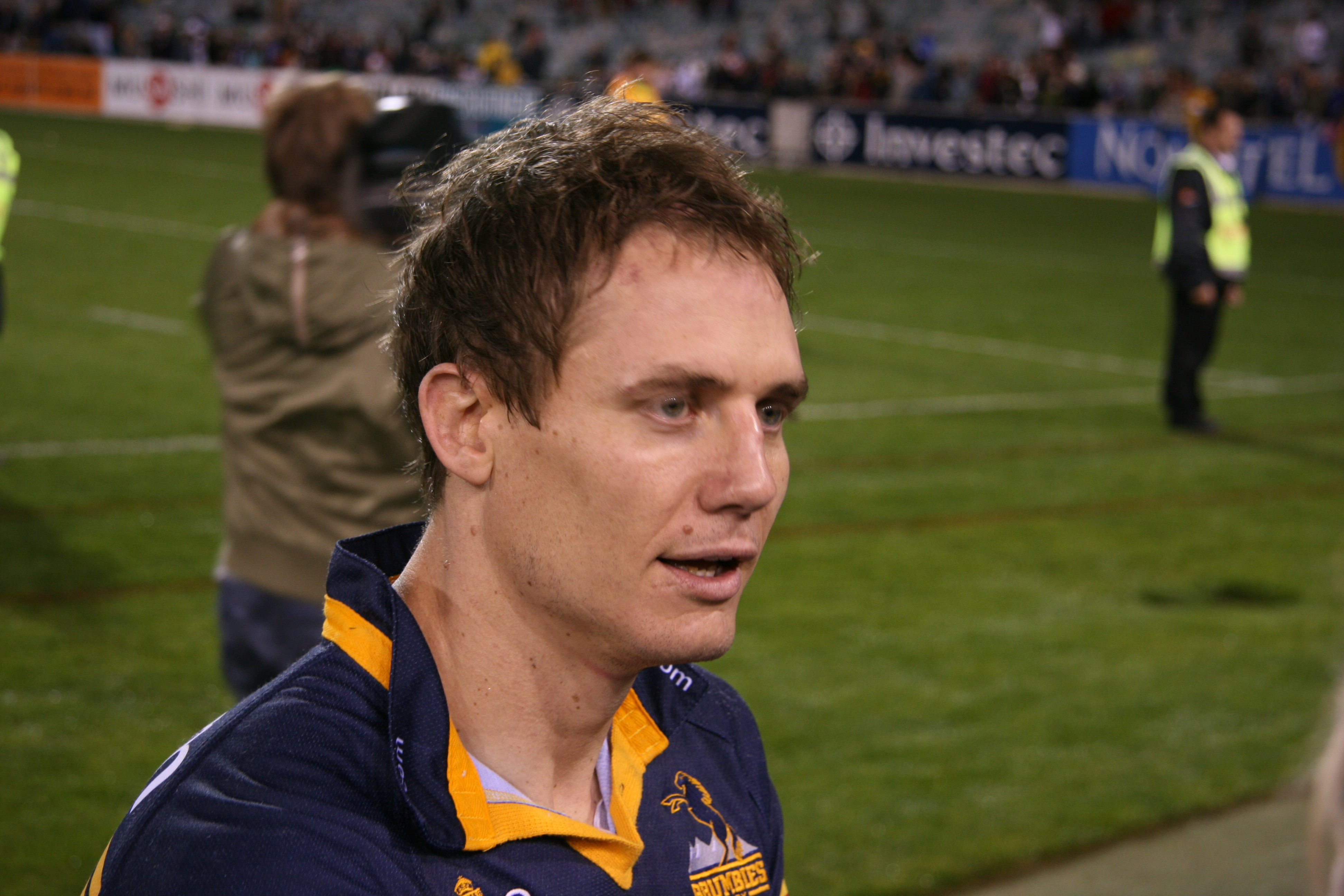 Stephen Larkham signing autographs for fans following his final home game for the Brumbies. The game was played against the Crusaders at Canberra Stadium on 28 April 2007.